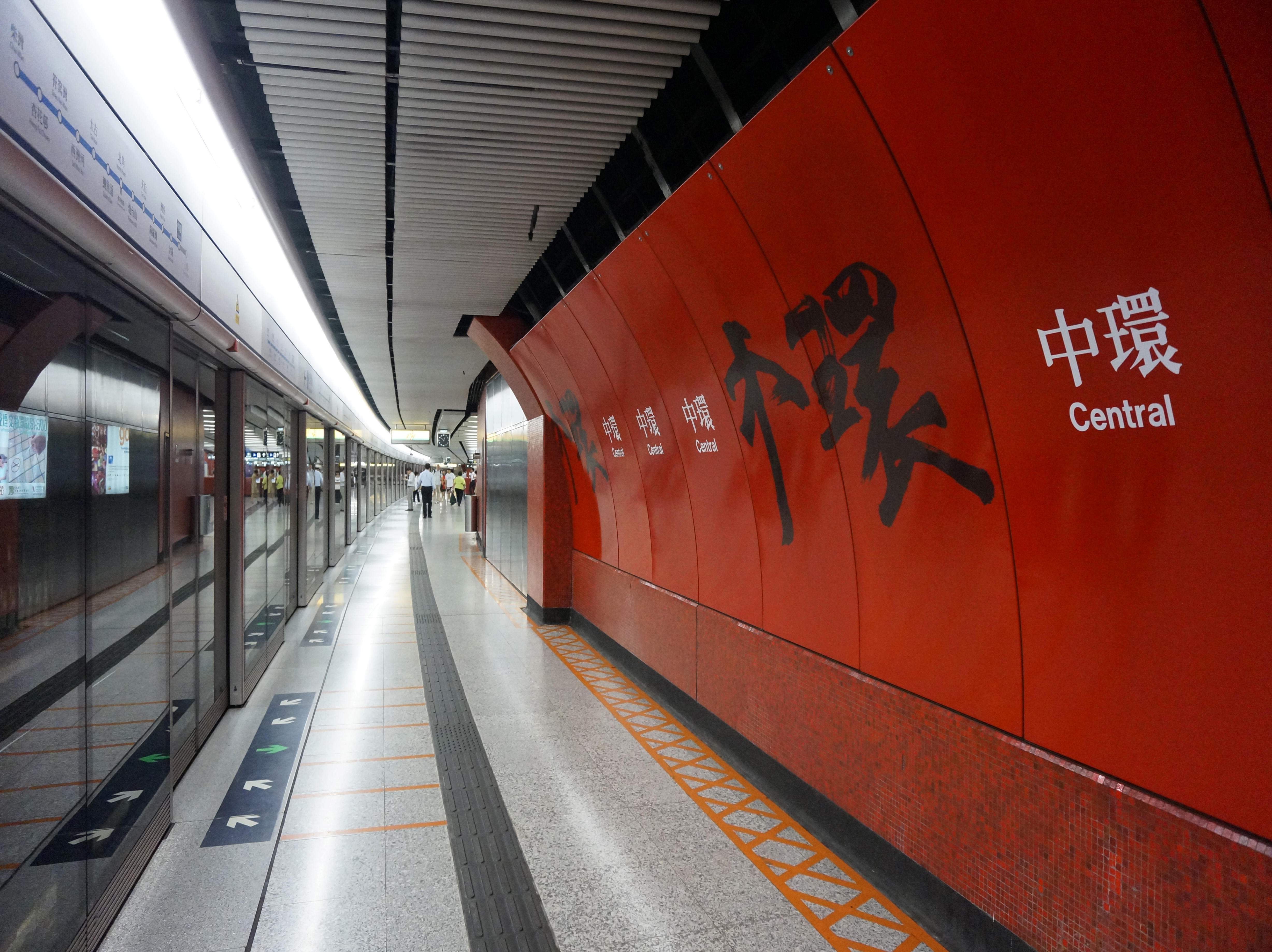 MTR Central station Platform 3